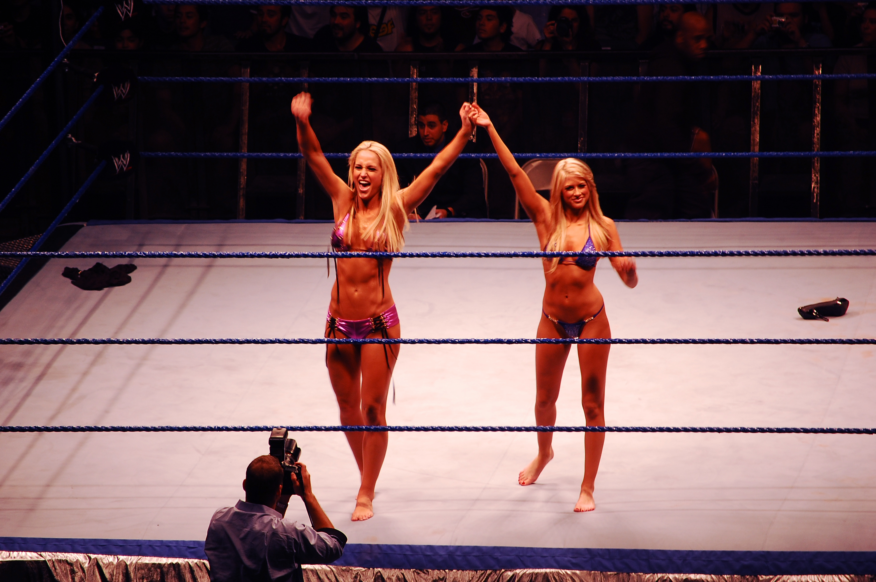 solo faltó layla